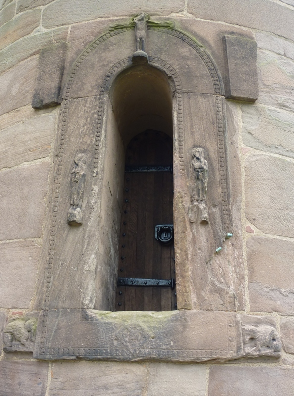 Brechin Cathedral Round Tower, Brechin, Angus, Scotland - entrance